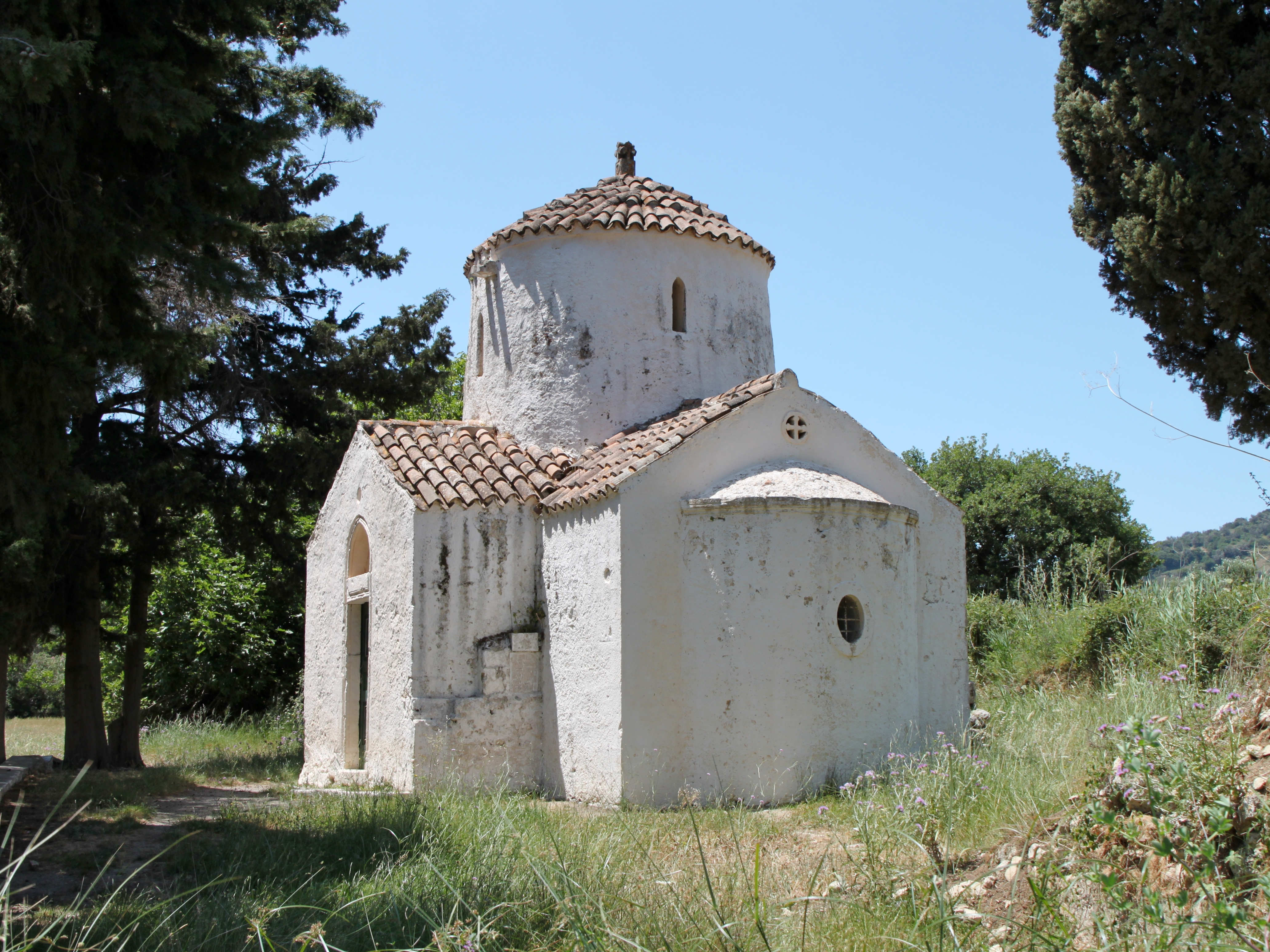 Chapel Agia Paraskevi (Αγία Παρασκευή) in the Amari Valley, Municipality of Amari, Crete, Greece